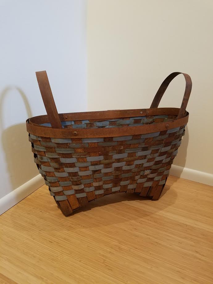 Elegant baskets woven from discarded industrial metal strapping: The photo is an award winning example of "Design with Memory of the material" strategy. This strategy is for finding successful paths to re-use materials. Materials that are discarded can be a rich resource for new product development. Adding value to the material through artistic design is the key to using them successfully.